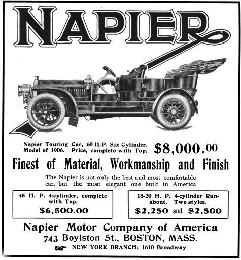 Napier Motor Company of America of Boston, Massachusetts - 1906